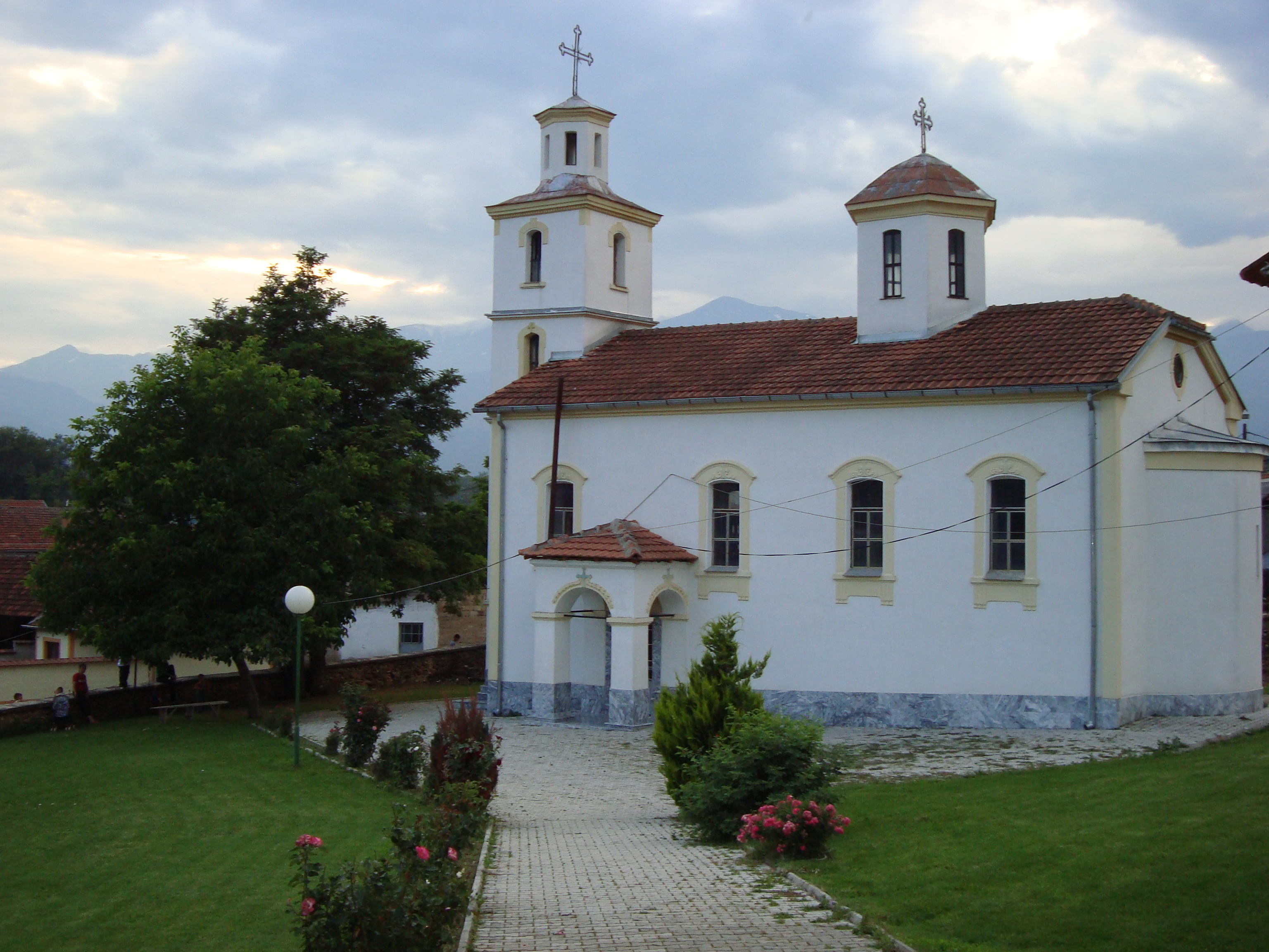 The church "St. Nikola" in Tenovo, Macedonia.